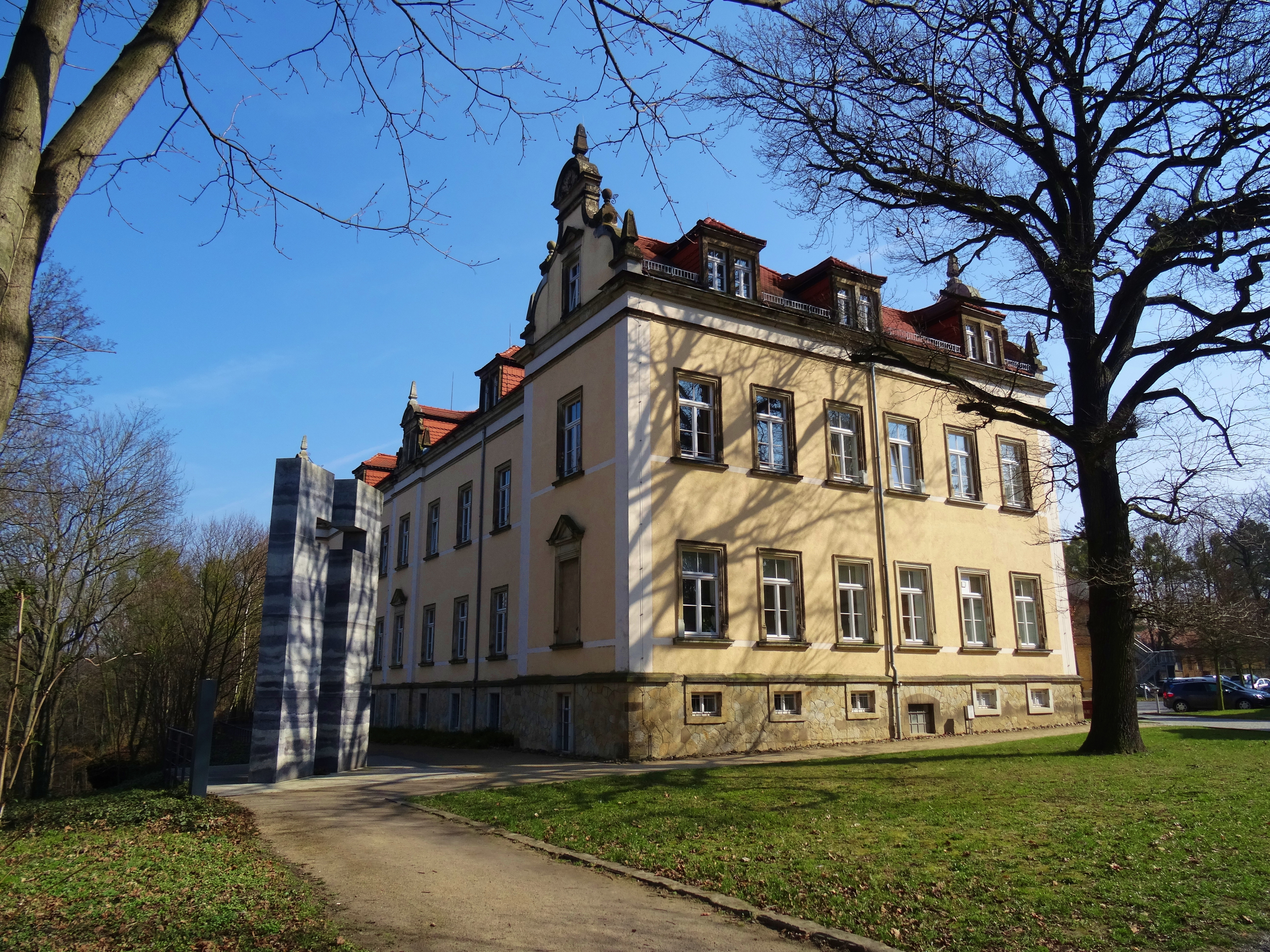 The Human rights memorial Castle-Fortress Sonnenstein in Pirna's old-town.